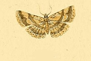 Pterotopteryx dodecadactyla